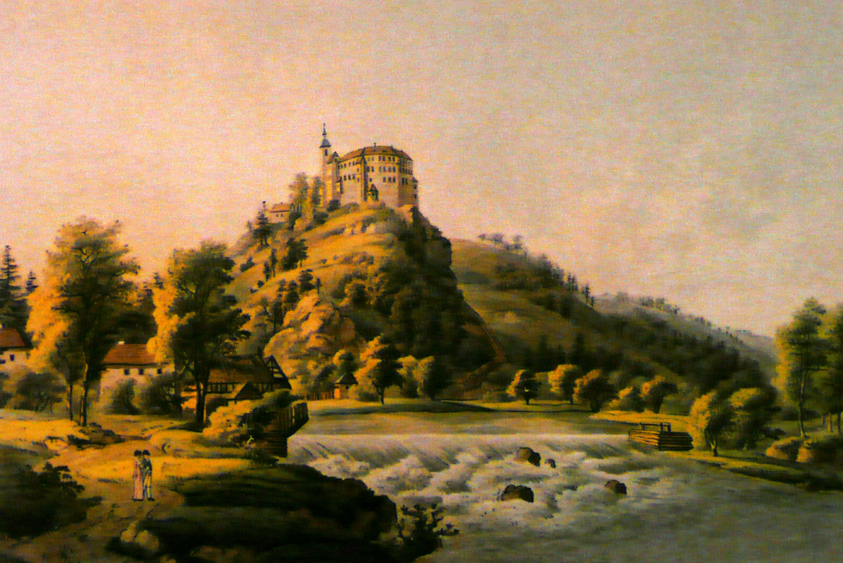 This image shows Sachsenburg castle on top of a Rock above the Zschopau (Fluss).